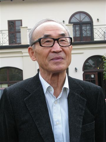 Ko Un (b. August 1, 1933) - Korean writer. He lives in Anseong, Gyeonggi-do (South Korea).